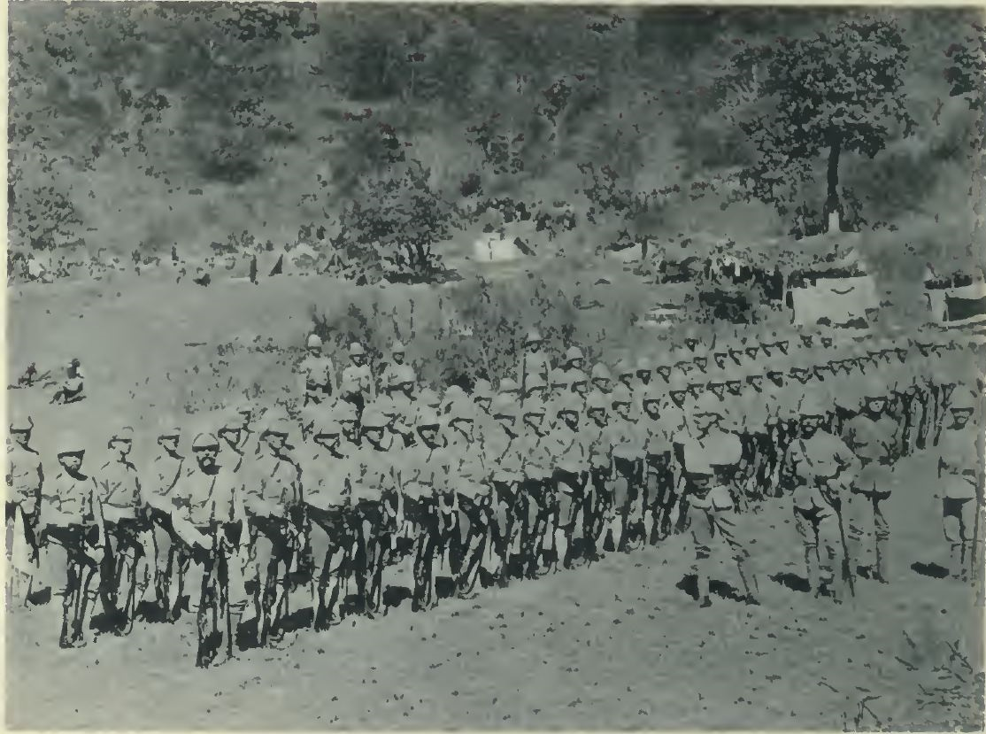 King's Rifle Column prepared to march to Fahlam, March 1892.